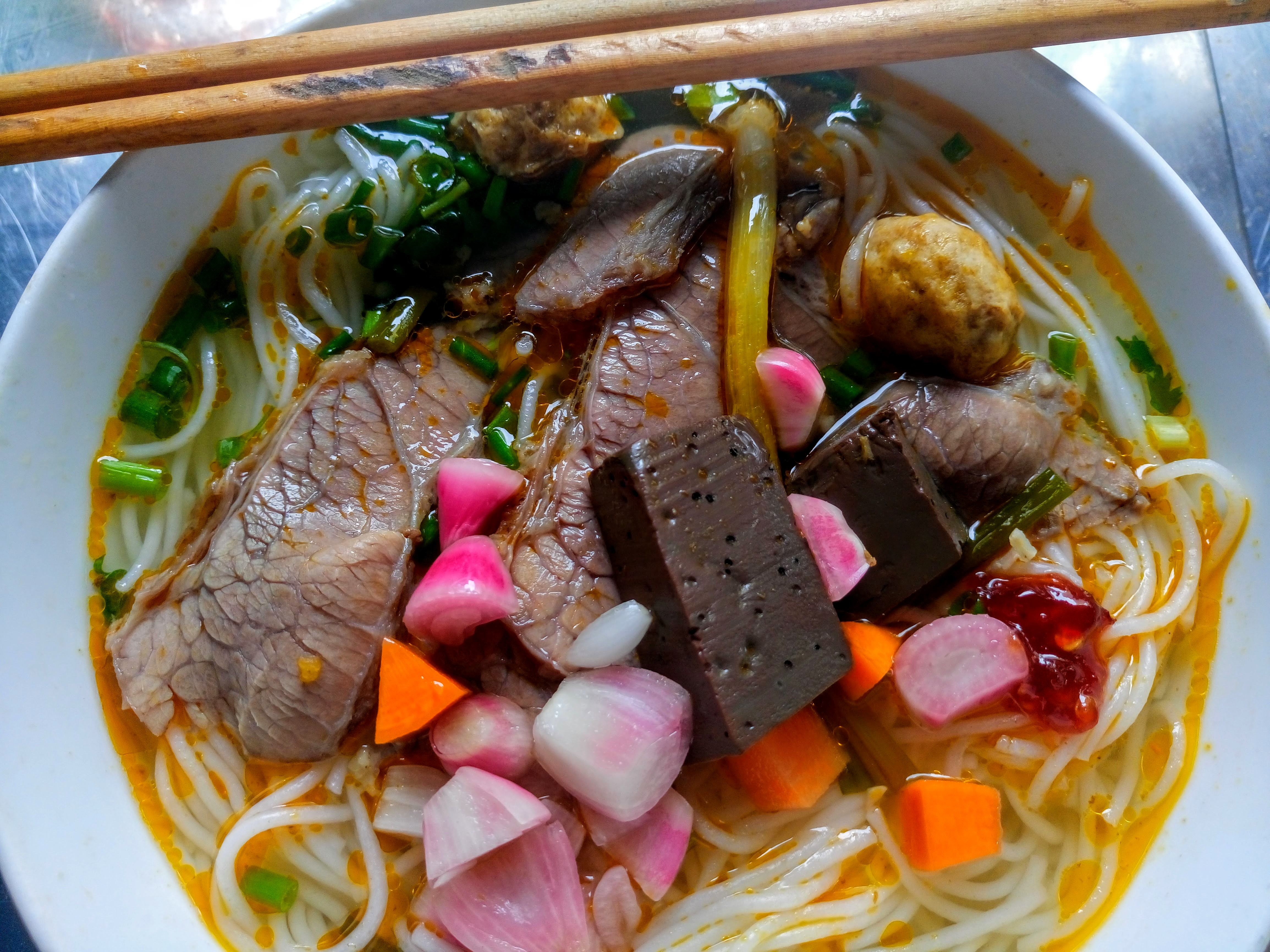 Bún bò Huế ở Đà Nẵng is the Đà Nẵng version of the classic beef noodle soup.